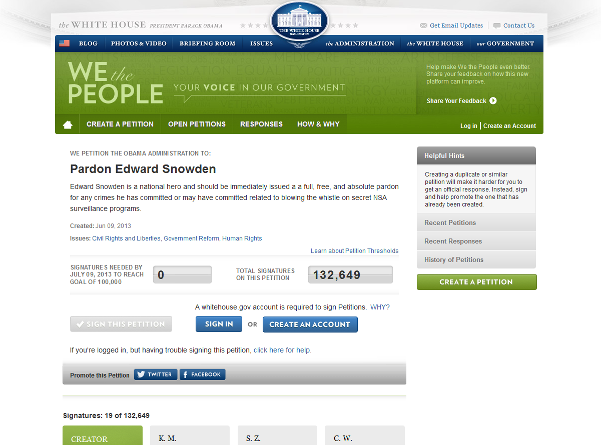 Whitehouse "Pardon Edward Snowden" petition which reached over 100,000 signatures in two weeks. May be historically important if the petition goes down or the site changes appearance, etc. Other information Screenshot of public domain page